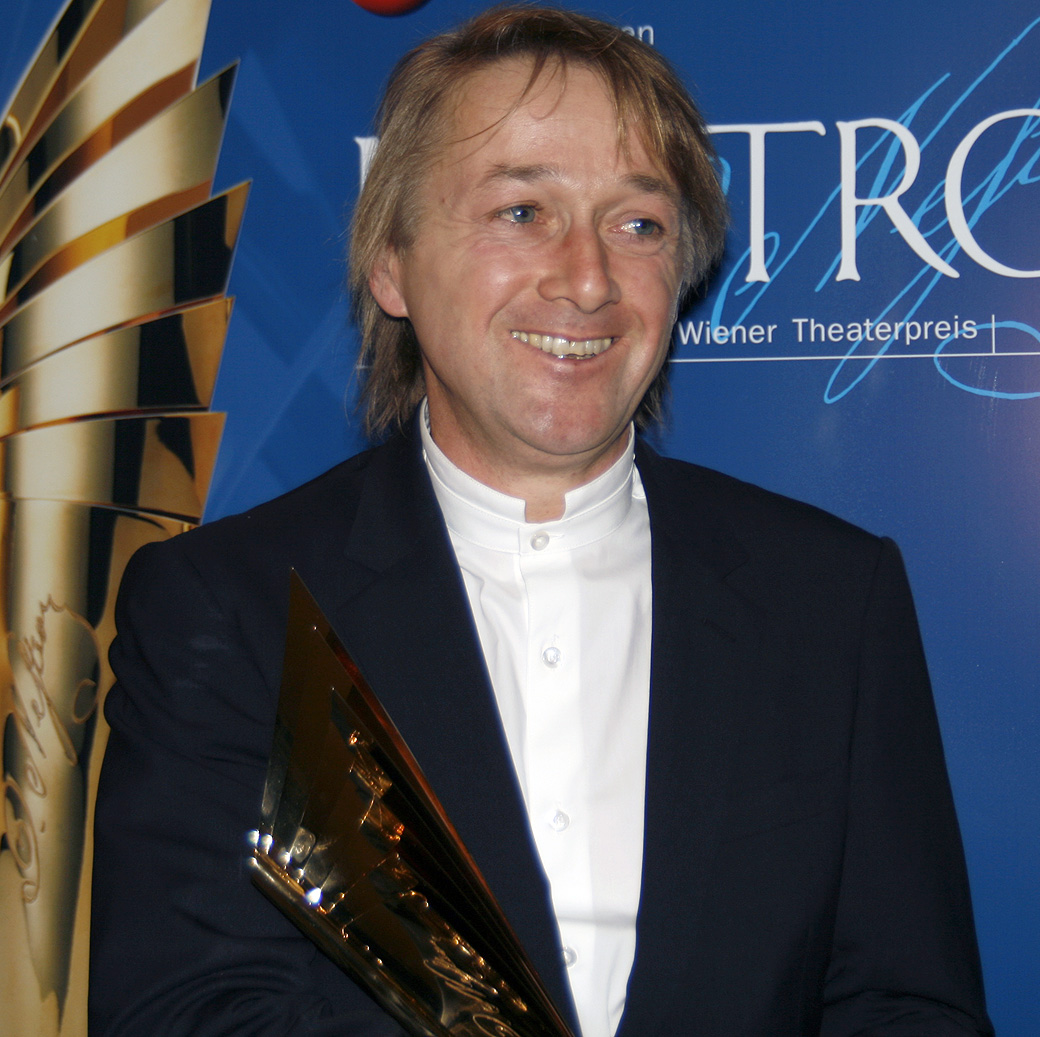 Actor Markus Hering at the Nestroy-Theaterpreis (Etablissement Ronacher, Vienna)